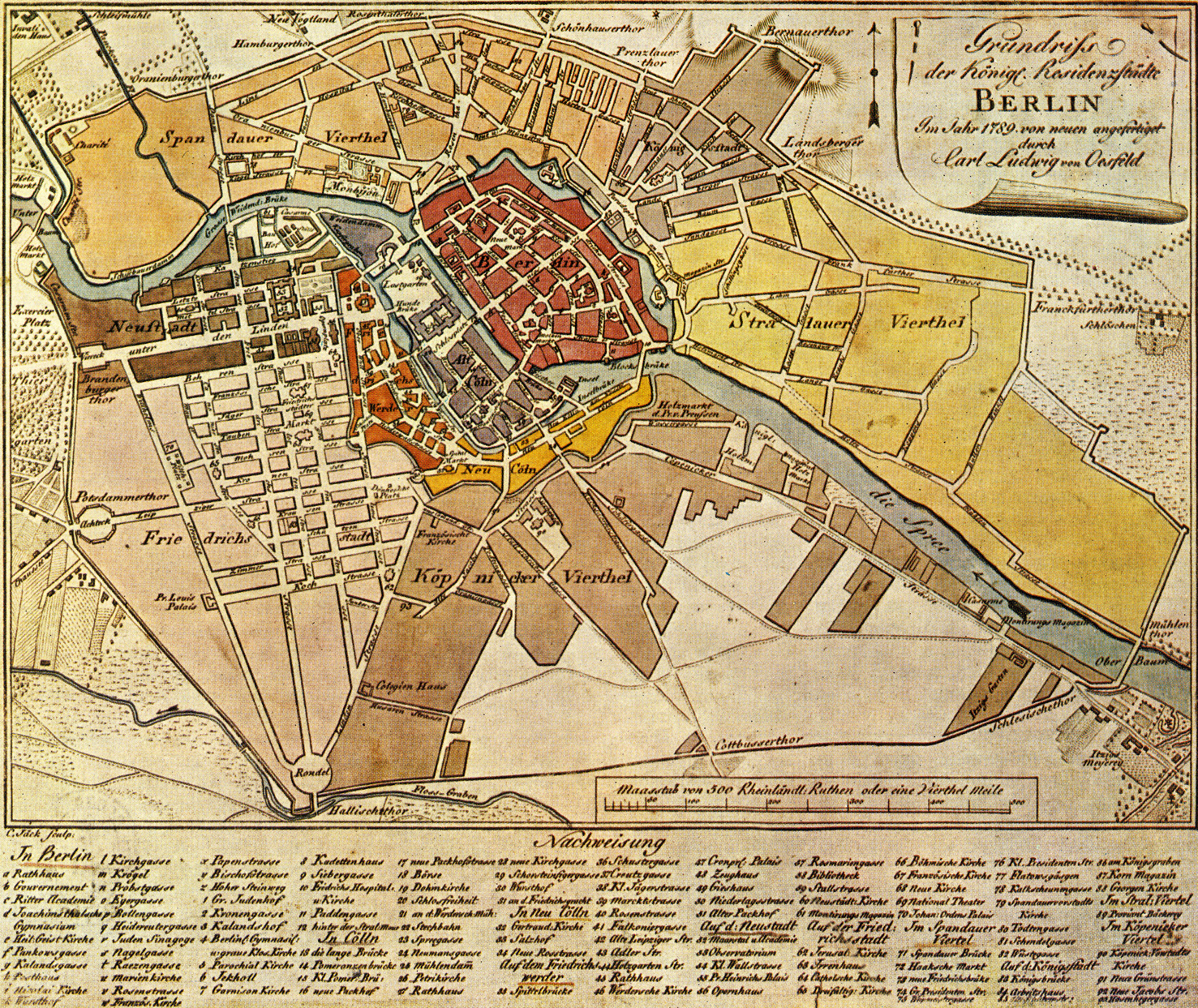 Map of seat of royal power Berlin from 1789, coloured copper engraving.